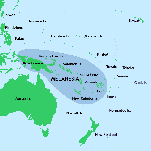 Melanesia, a cultural and geographical area in the Pacific. Melanesia